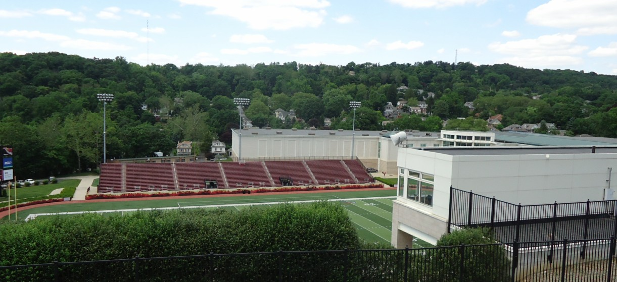 View of the stadium and playing field from the parking garage behind Markle Hall. A photo from a campus tour of Lafayette College in Easton, Pennsylvania. Lafayette is a liberal arts college on a hill near the Delaware River.